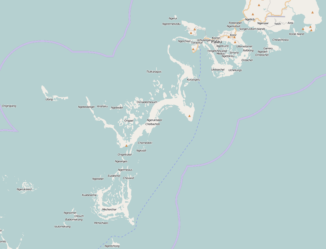 Southern Palau. Grey lines mark the territorial waters.